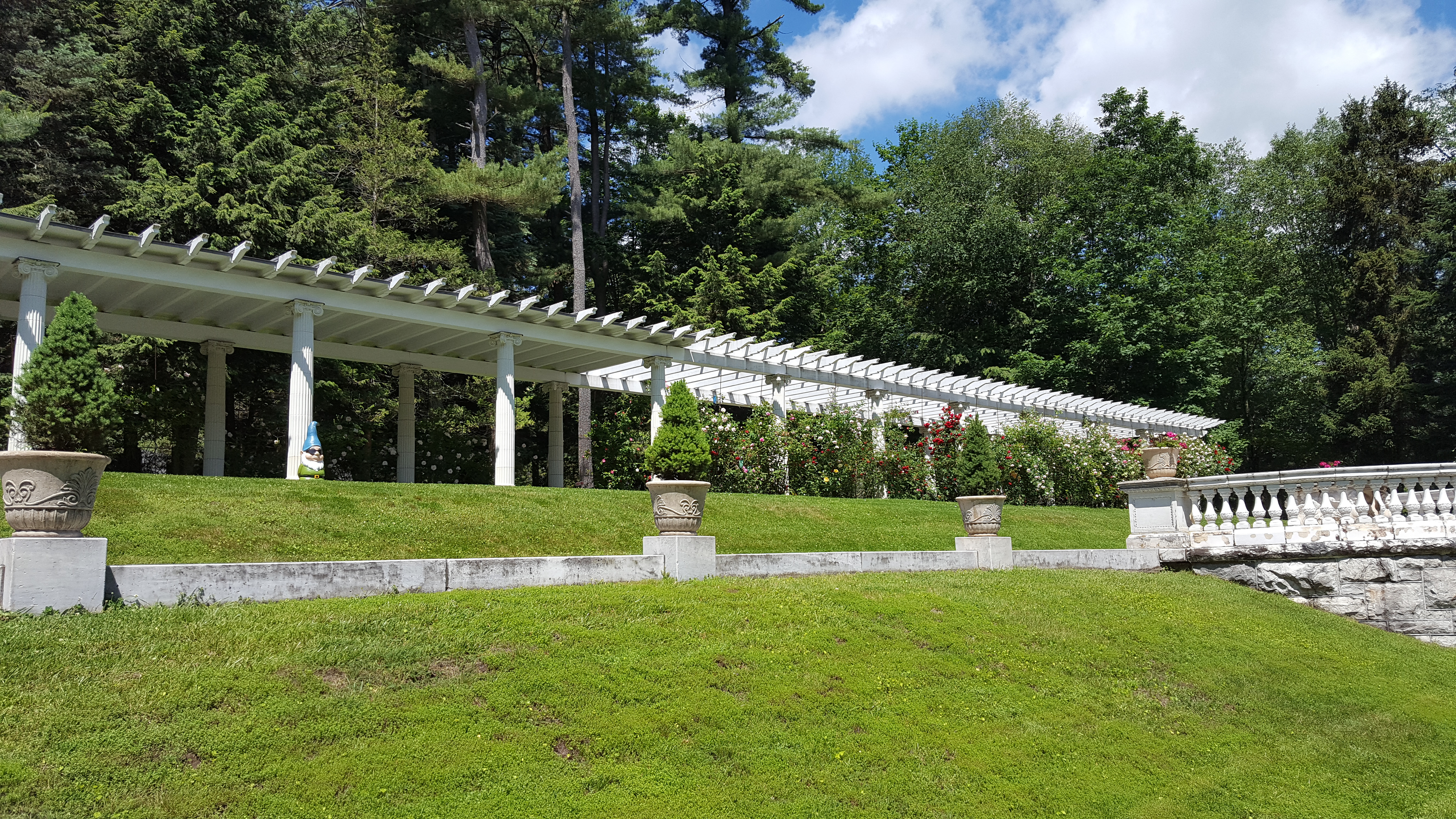 The Capital District Tourism Gnome spent a day at Yaddo in Saratoga Springs, New York, in the heart of Saratoga County. He had a wonderful time smelling the rose bushes at the height of bloom, walking among the amazingly tall trees, and enjoying looking at sculptures, a sundial, and making new friends. A wonderful sunny day, made even better by finding a secluded grotto.